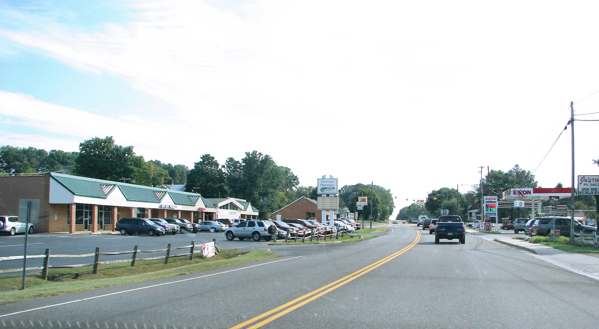 US Route 340 thru Grottoes, Rockingham County, Virginia, United States